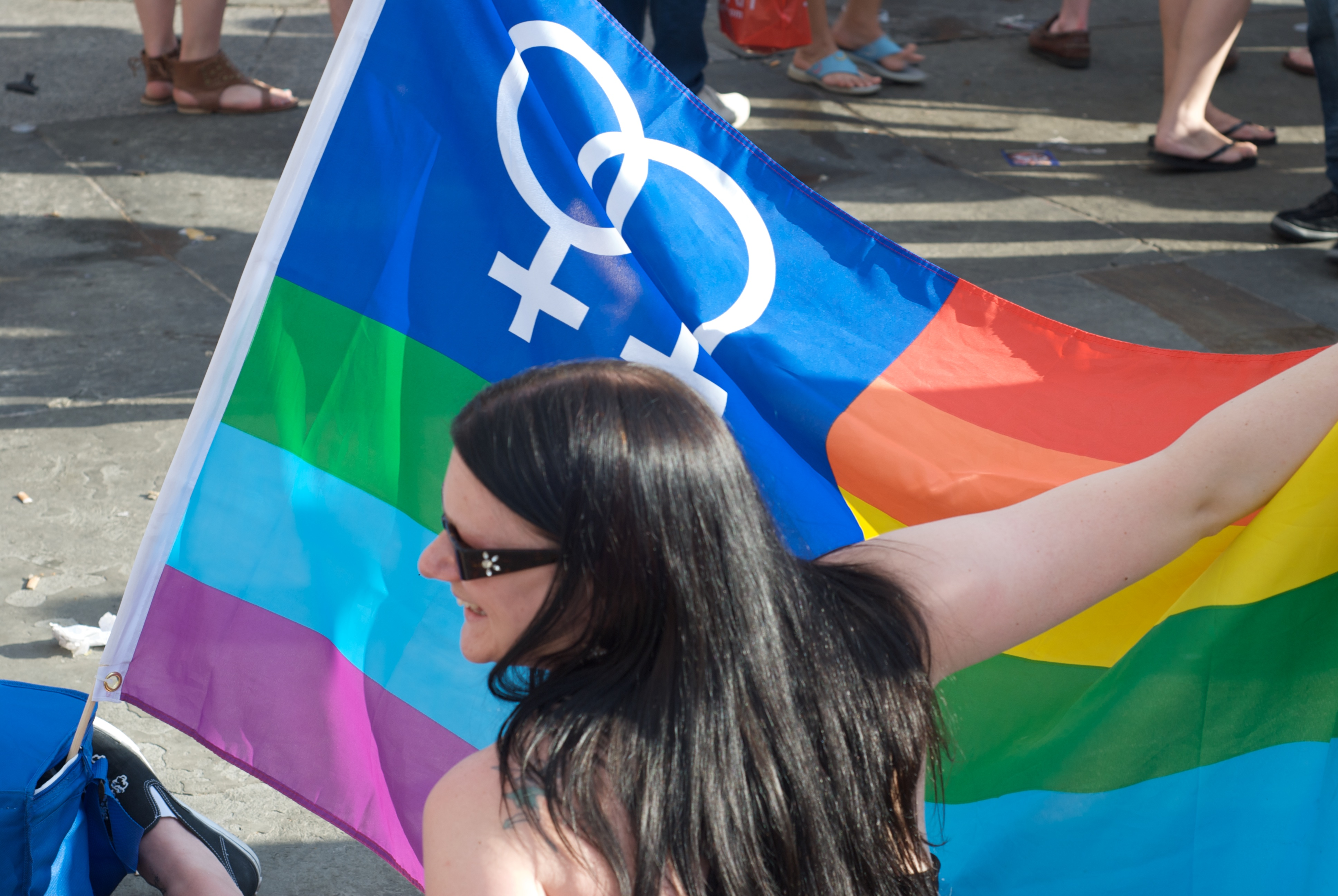 Lesbian flag at London Pride 2010.